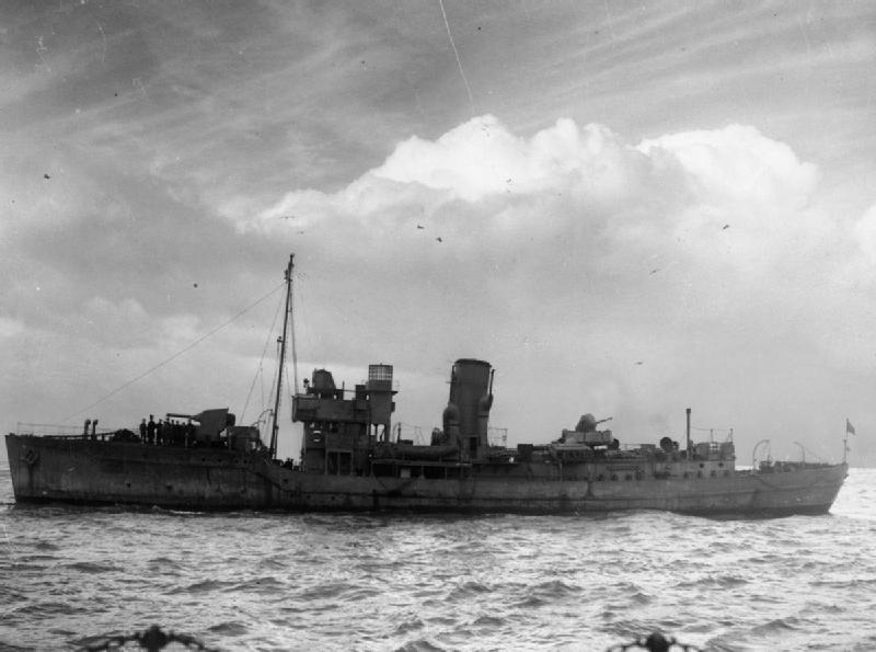 Photograph of Flower class corvette HMS Periwinkle.